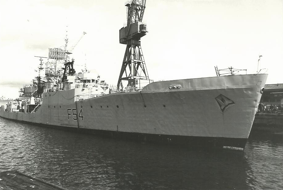 Type 14 "Captain" or "Blackwood" Class anti-submarine frigate "HMS Hardy", Portsmouth Navy days, August 1982. At this time "Hardy" was the last Type 14 frigate in the reserve fleet but unlike other frigates in reserve at that time, was not refitted for the Falklands Relief Fleet, she being deemed of limited value by this time.